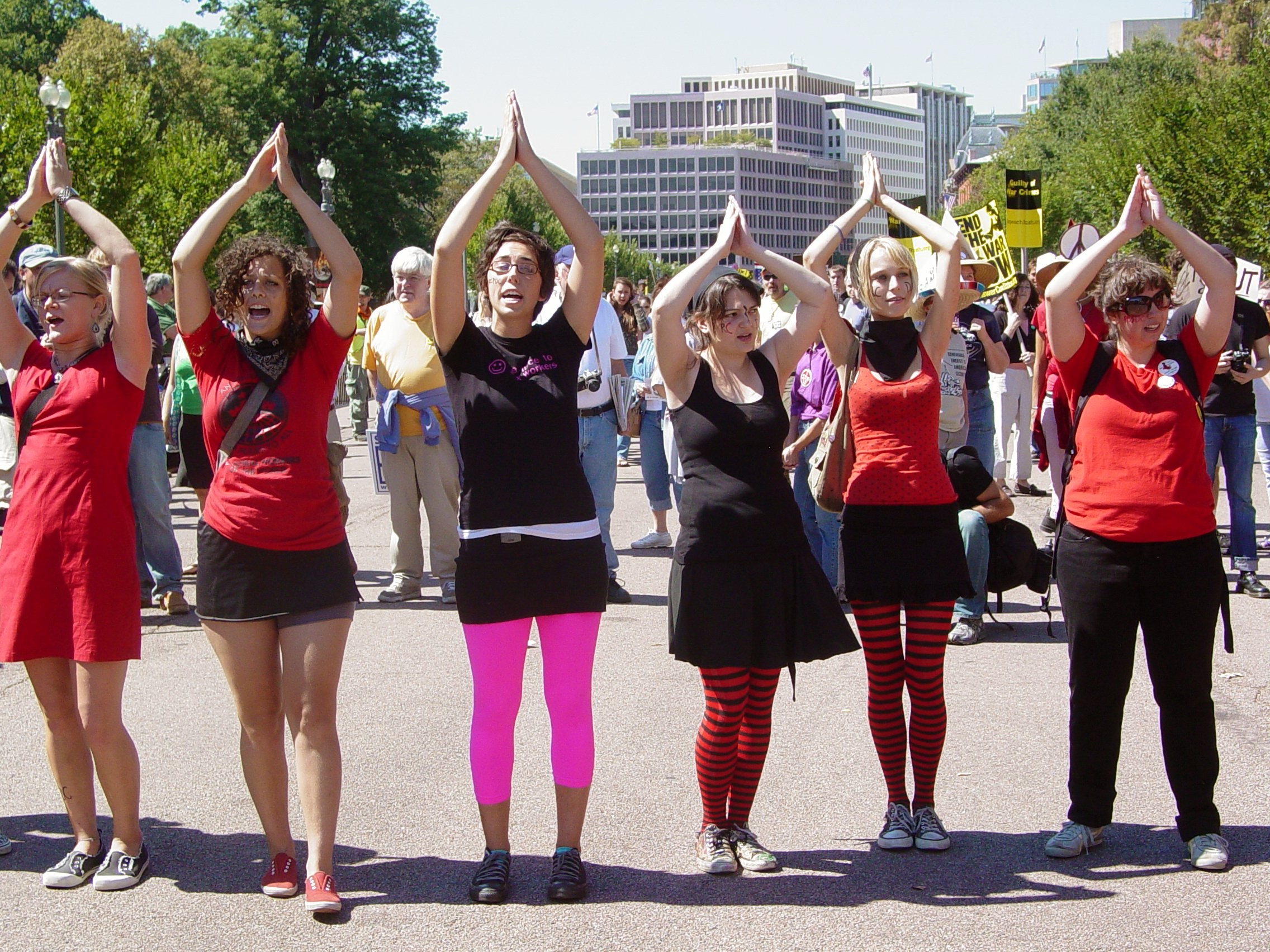 Radical cheerleaders in front of the White House at the September 15, 2007 anti-war protest in Washington, DC.